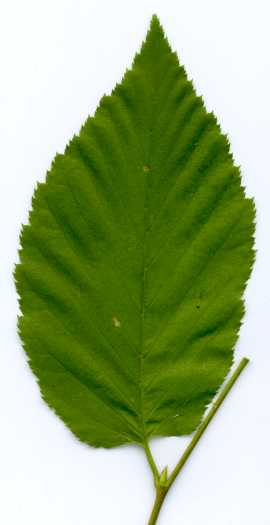 Betula lenta (Sweet Birch) - leaf form